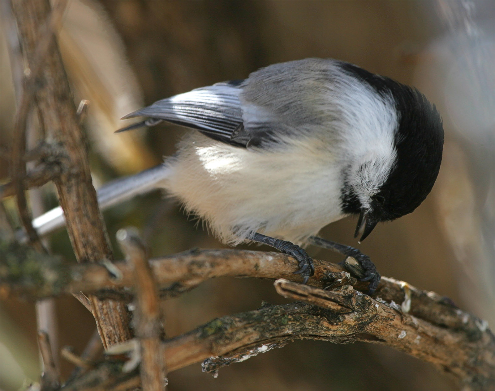 Black-capped Chickadees (Poecile atricapillus) frequently grab seeds from a feeder or tray and return to a tree in order to hammer them open with their beak while holding it with their feet.